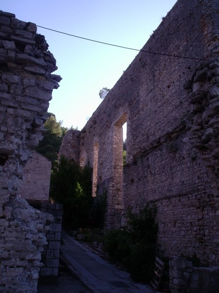 The main wall of the roman palace in polače, Mljet, Croatia